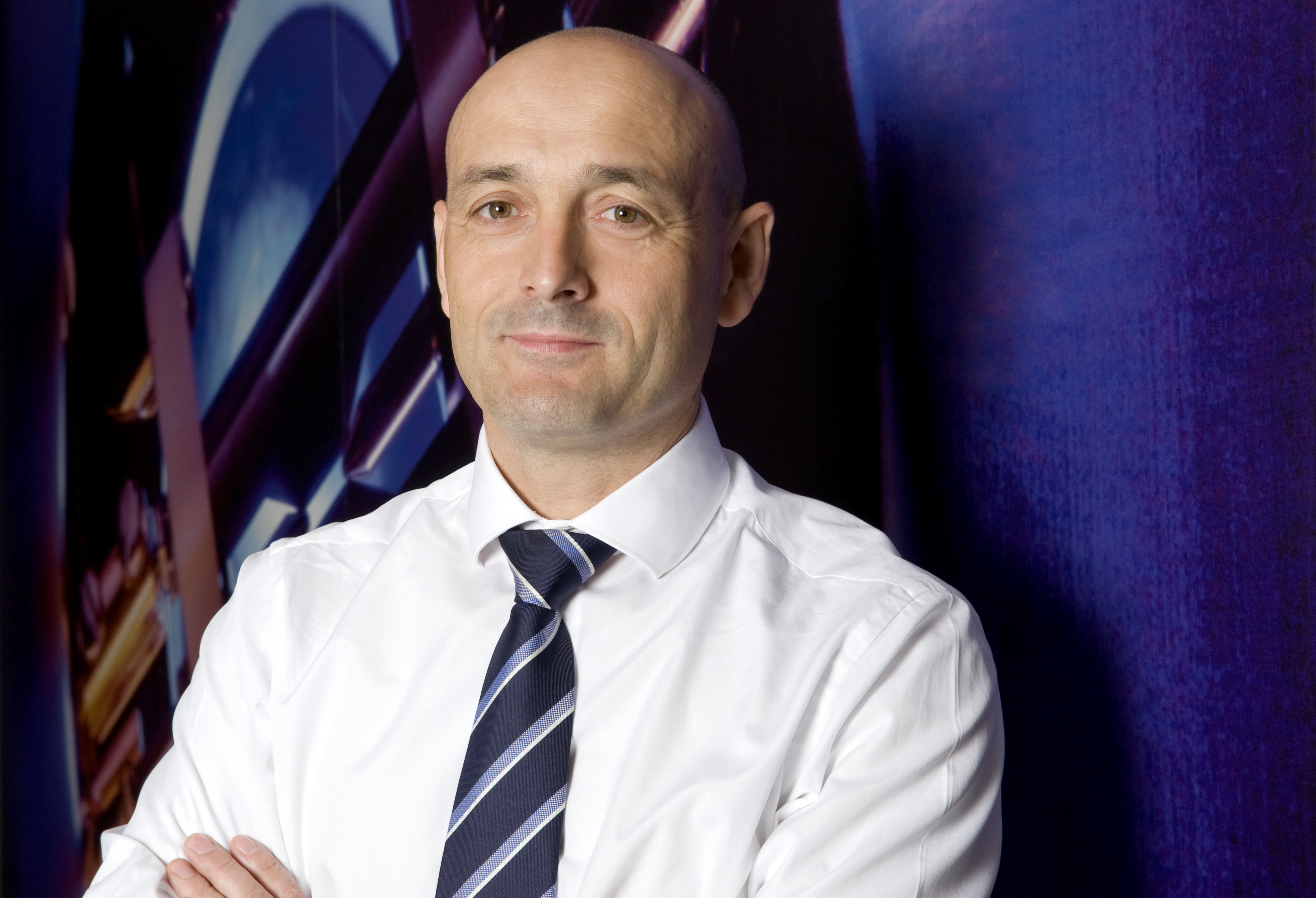 Prof. Lluis Torner, founder and director of ICFO.